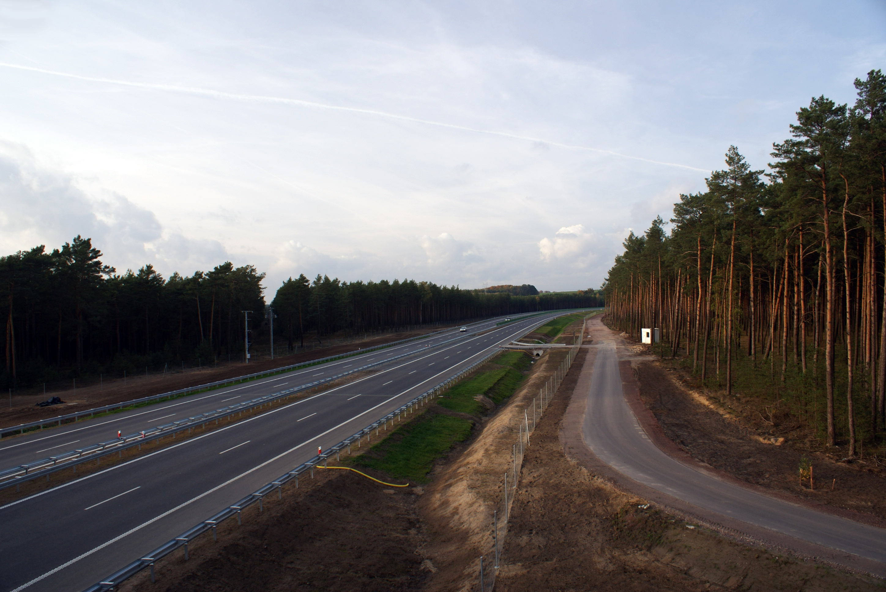 Polish A1 Motorway, section Swarożyn-Nowe Marzy.